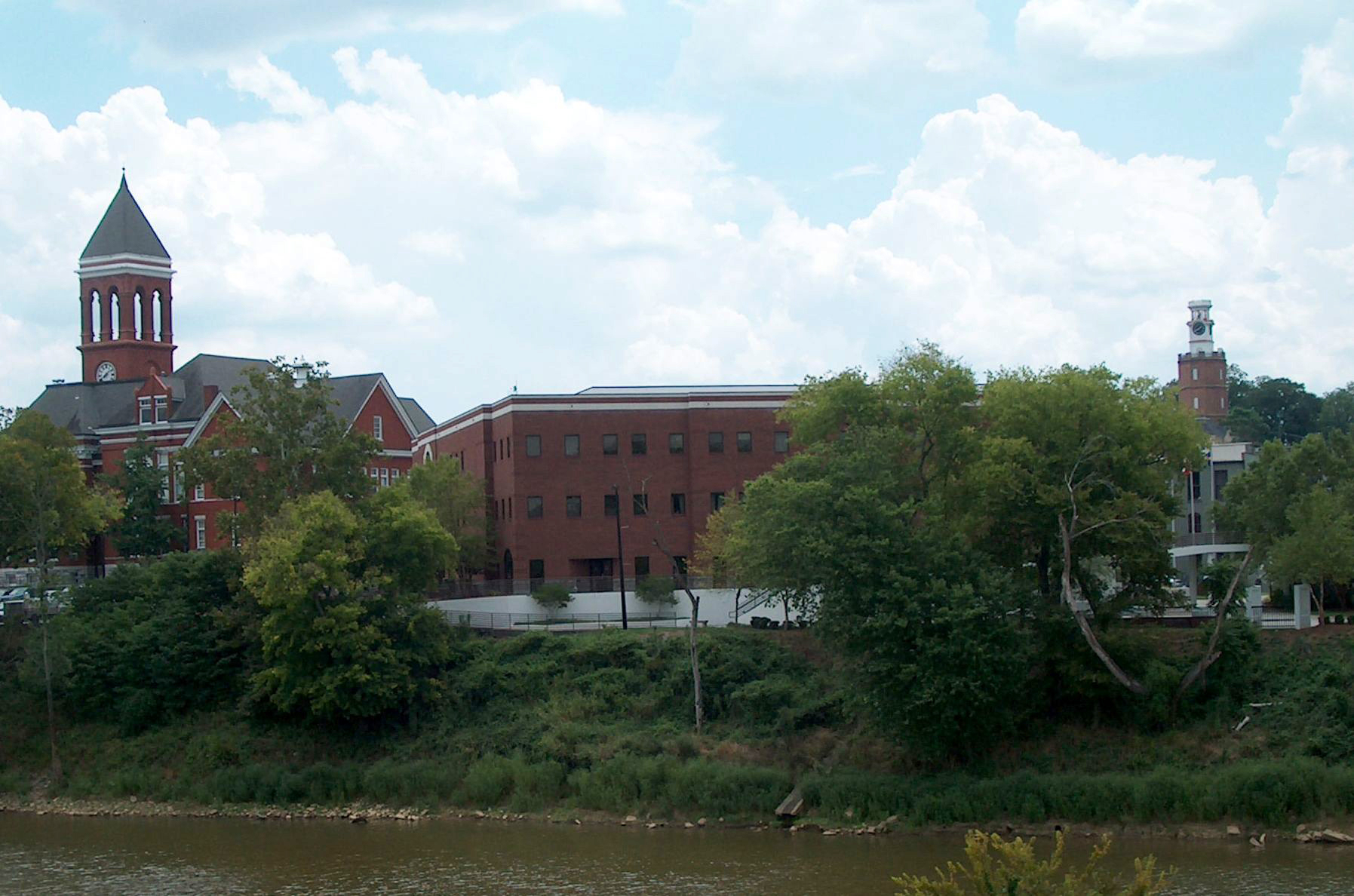 The clock tower and historic courthouse in downtown Rome as you see from across the Oostanaula River where Culber007 took the picture.